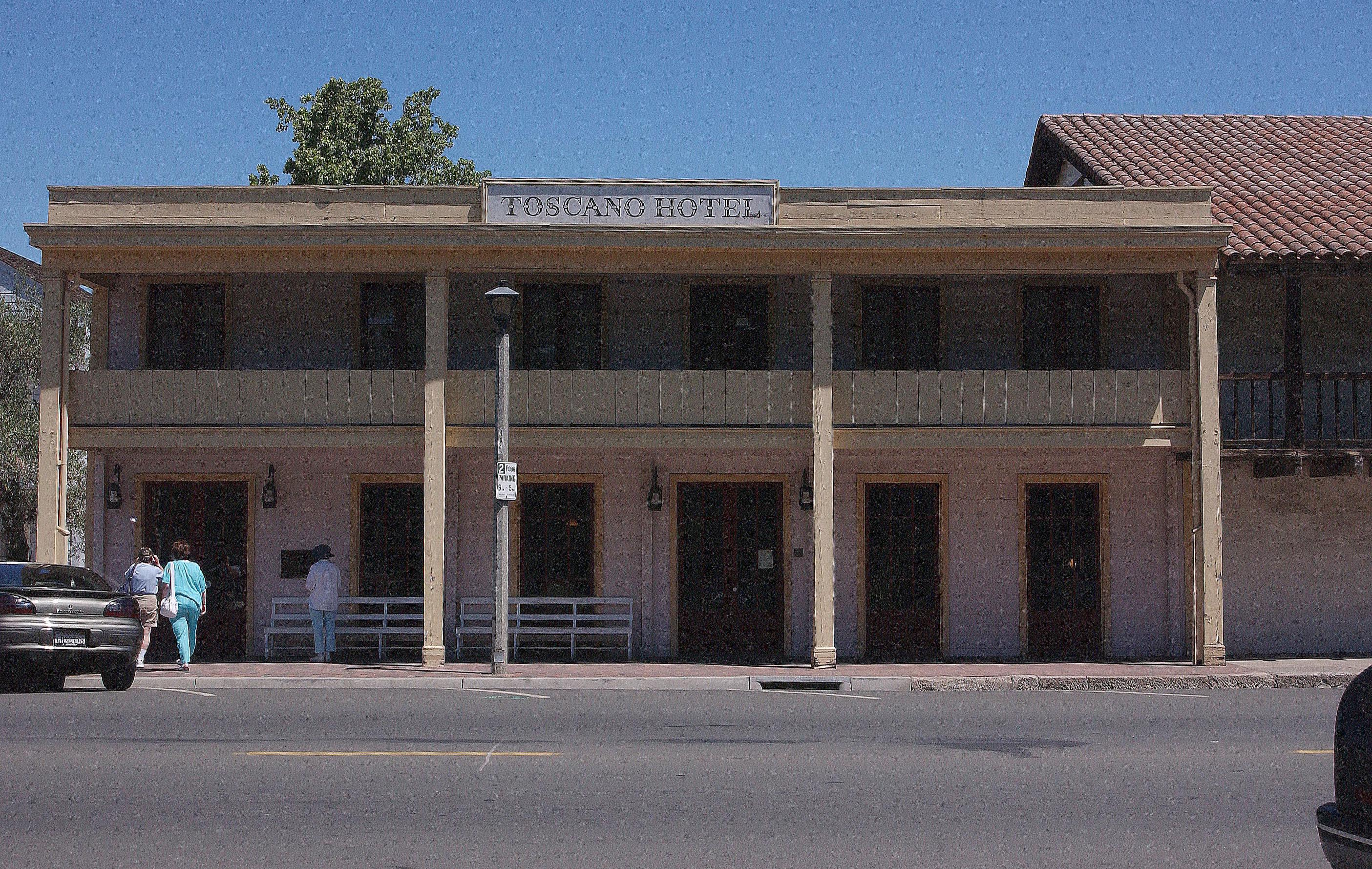 BUILT IN THE 1850’S AS A RETAIL STORE BUT THEN BECAME THE INEXPENSIVE EUREKA HOTEL UNTIL MANY ITALIAN IMMIGRANTS ARRIVED WHO CHANGED THE NAME TO TOSCANO.